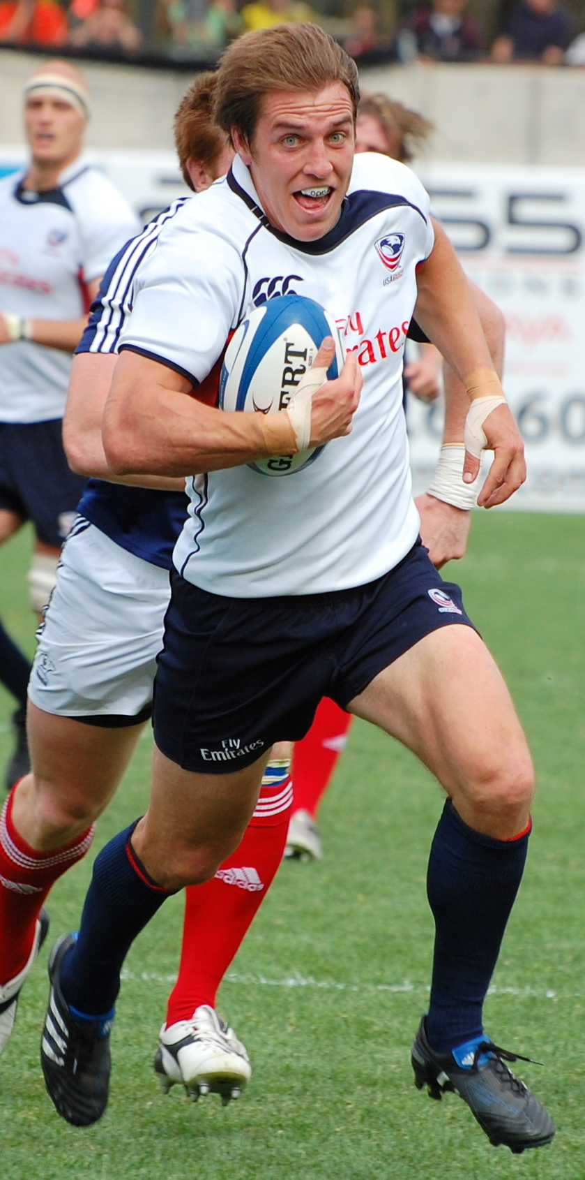 Chris Wyles of the USA Eagles running for a try against Russia during the 2010 Churchill Cup.